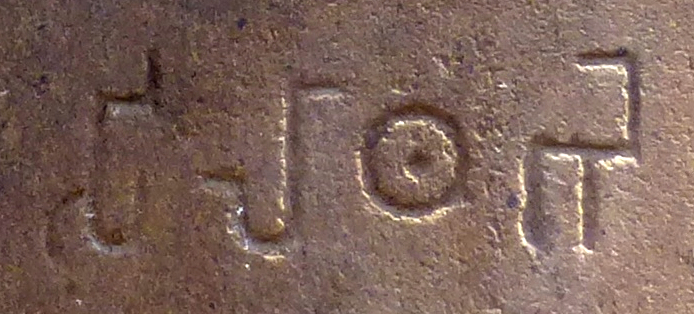 "Silaa Thabe" inscription ("Stone pillar"), in the Rummindei Edicts of Ashoka. Brahmi script.